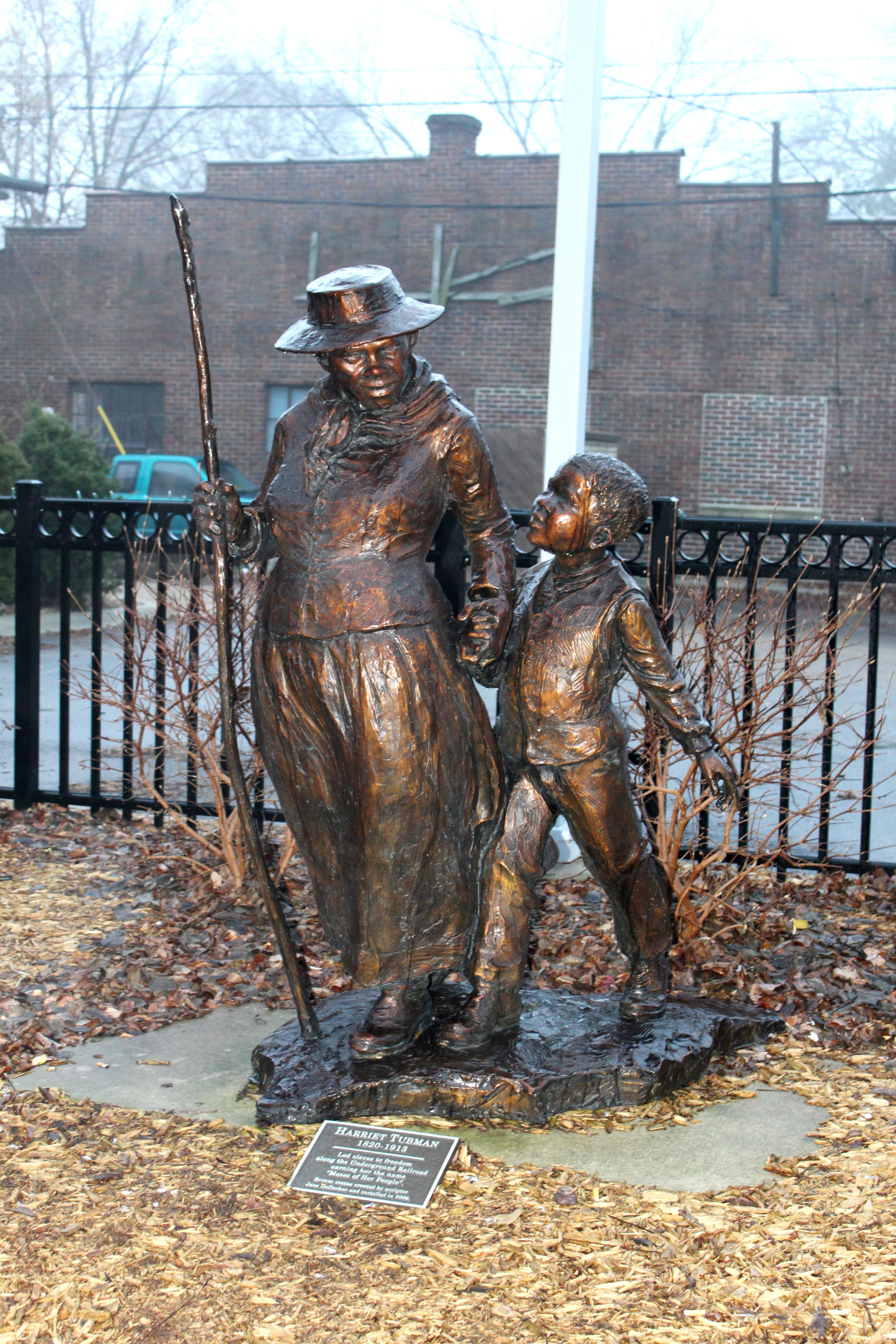 Statue commemorating Harriet Tubman, Ypsilanti District Library, 229 West Michigan Avenue,Ypsilanti, Michigan. The sculptor is Jane DeDecker. The sculpture was installed in 2006 according to the plaque at the foot of the sculpture.